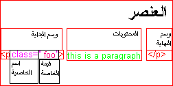 وسم اتش تي ام ال لبيان كيفيه اضافه خاصية الى الوسم